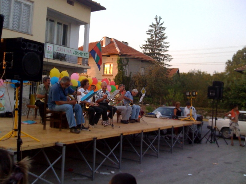 Part of the Watermelon day celebrations. Folk songs